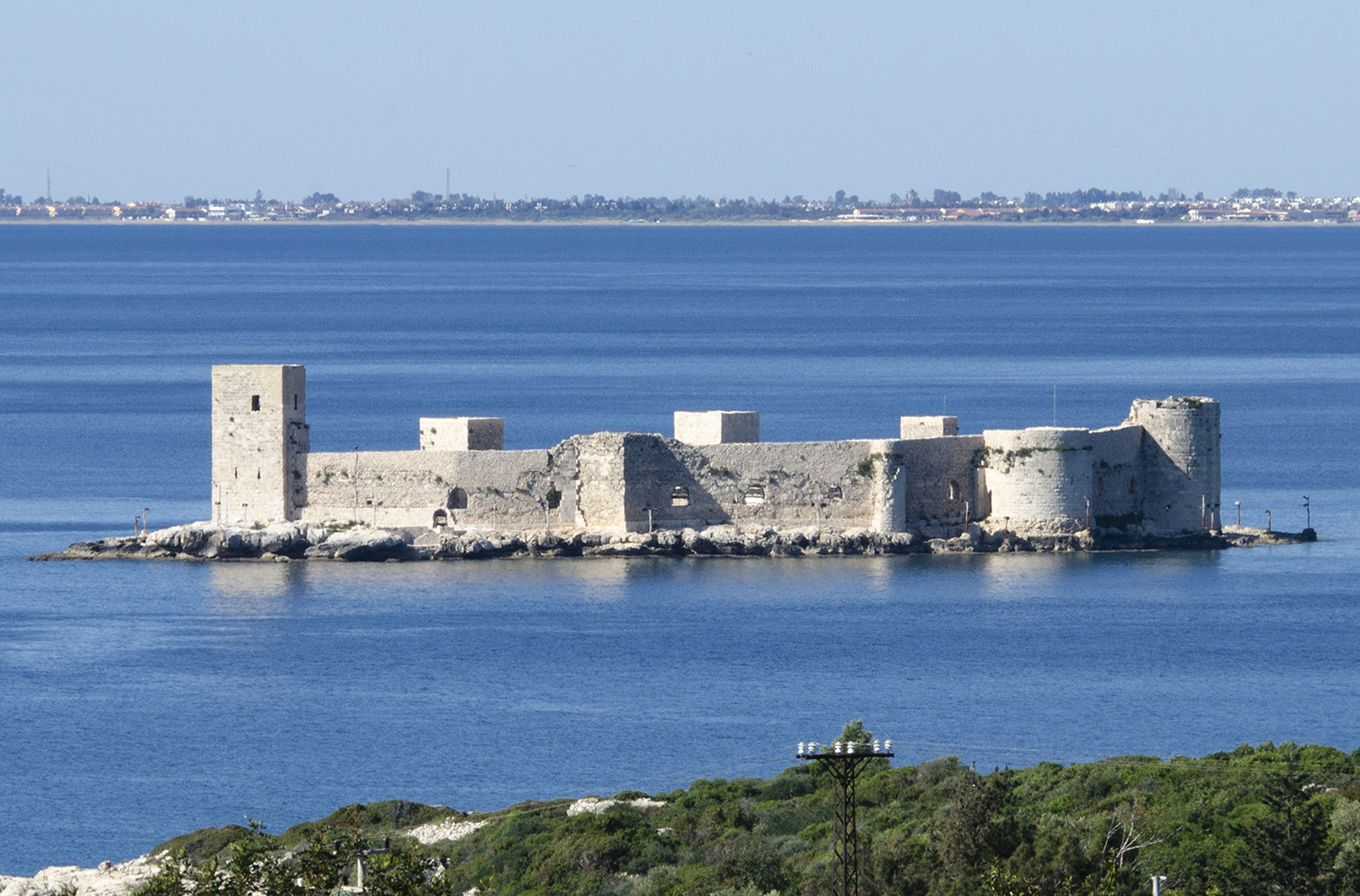 A northeastern side view of Kızkalesi (Korykos). Mersin - Turkey.